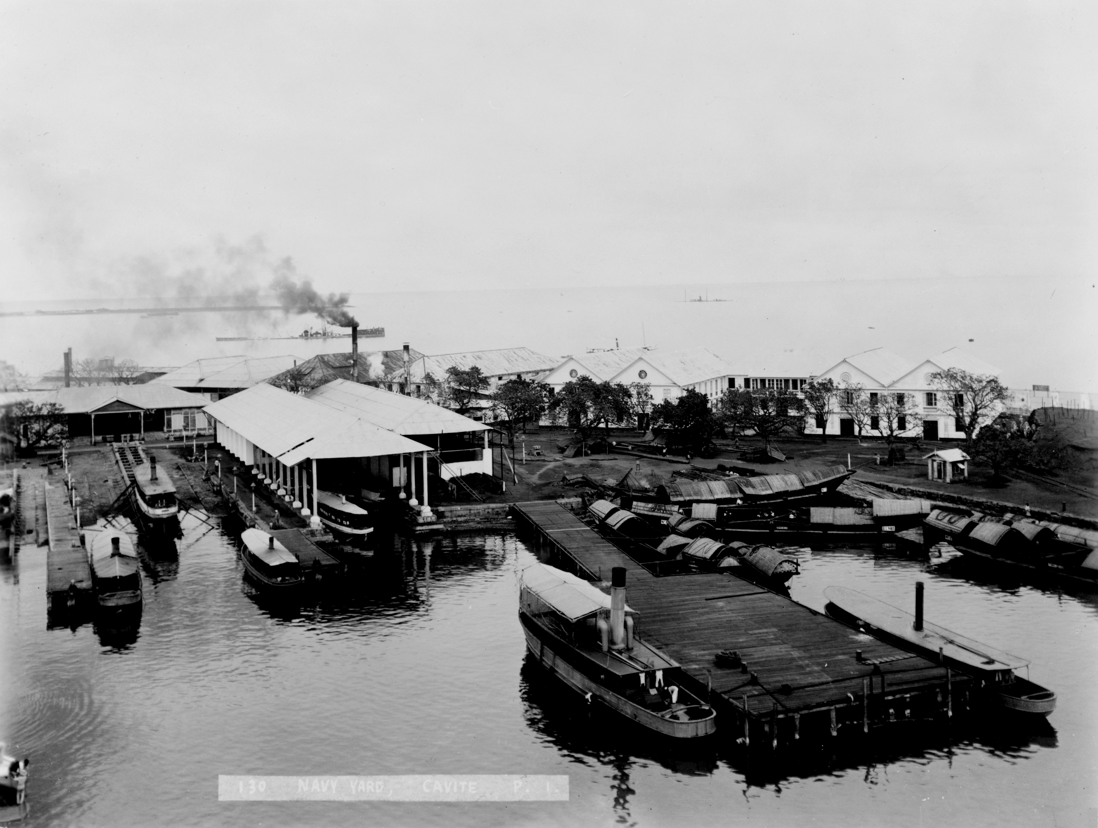 View of the Cavite Navy Yard of the U.S. Naval Station Sangley Point, Philippines, in 1899.